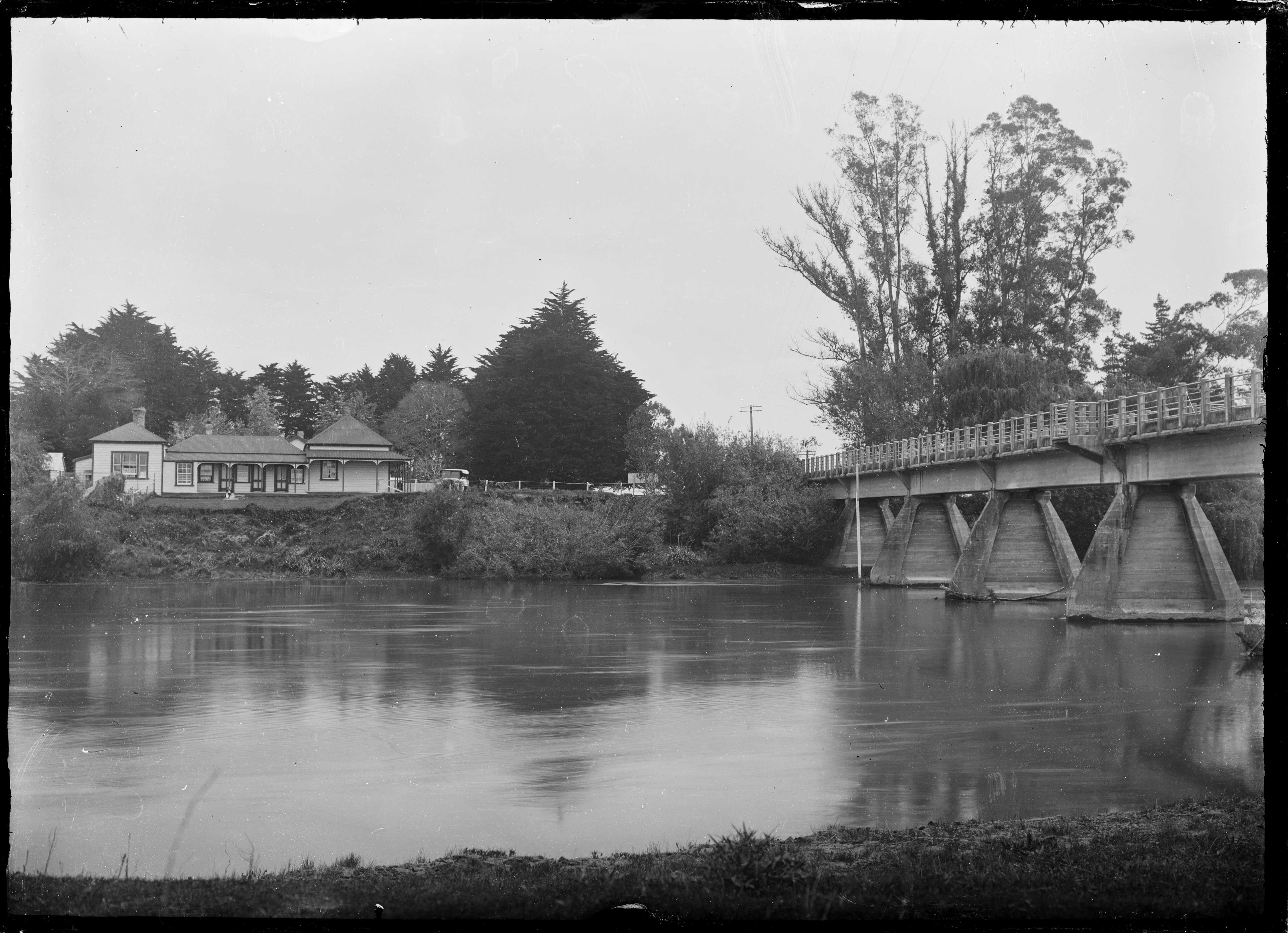 One-way bridge over the Rangitaiki River at Te Teko, Whakatane District. There is a house on the other side of the river with verandahs around two sides. Photographed by Albert Percy Godber circa 1920s.